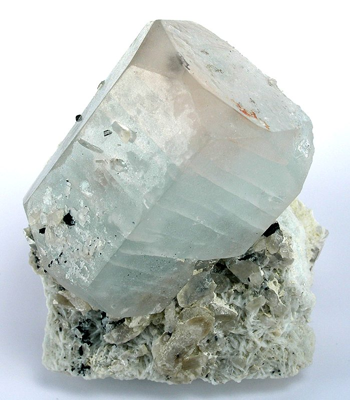 Beryl Locality: Oceanview Mine (MS 6452; MS 6848; Ocean View), Chief Mountain, Pala District, San Diego County, California, USA (Locality at ) Size: cabinet, 10 x 8 x 7 cm Beryl var. Aquamarine with Morganite A robust 7 x 6 x 4.5-cm crystal of beryl, perched without repairs on a very well trimmed matrix, makes this a superb, aesthetic example from the late 2007 finds here. These are some of the best matrix beryls we have seen since the 1990s, and they have a distinct barrel shape and multihued color to them. This single crystals is blue, pink, and clear all at the same time, in different zones. It is glassy, and has a good termination. Bill Larson helped the miners clean and prepare the pieces from this pocket; and this specimen, and one larger example as well, were his choices from that pocket to keep. This was actually one of the last 2 specimens added to the Pala San Diego collection, just a few months before its sale to me. Ex. William Larson Collection.